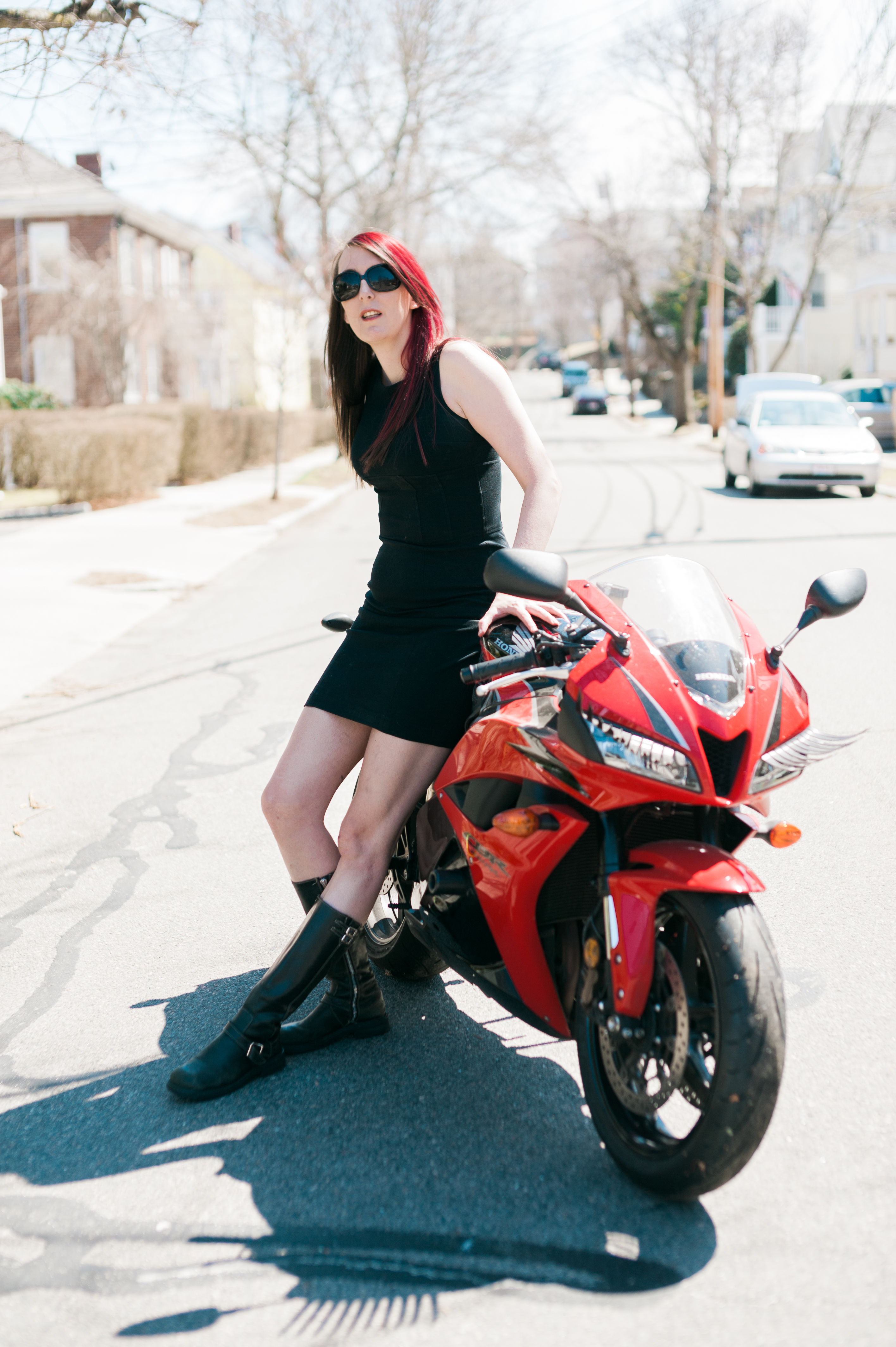 Brianna Wu next to motorcycle.